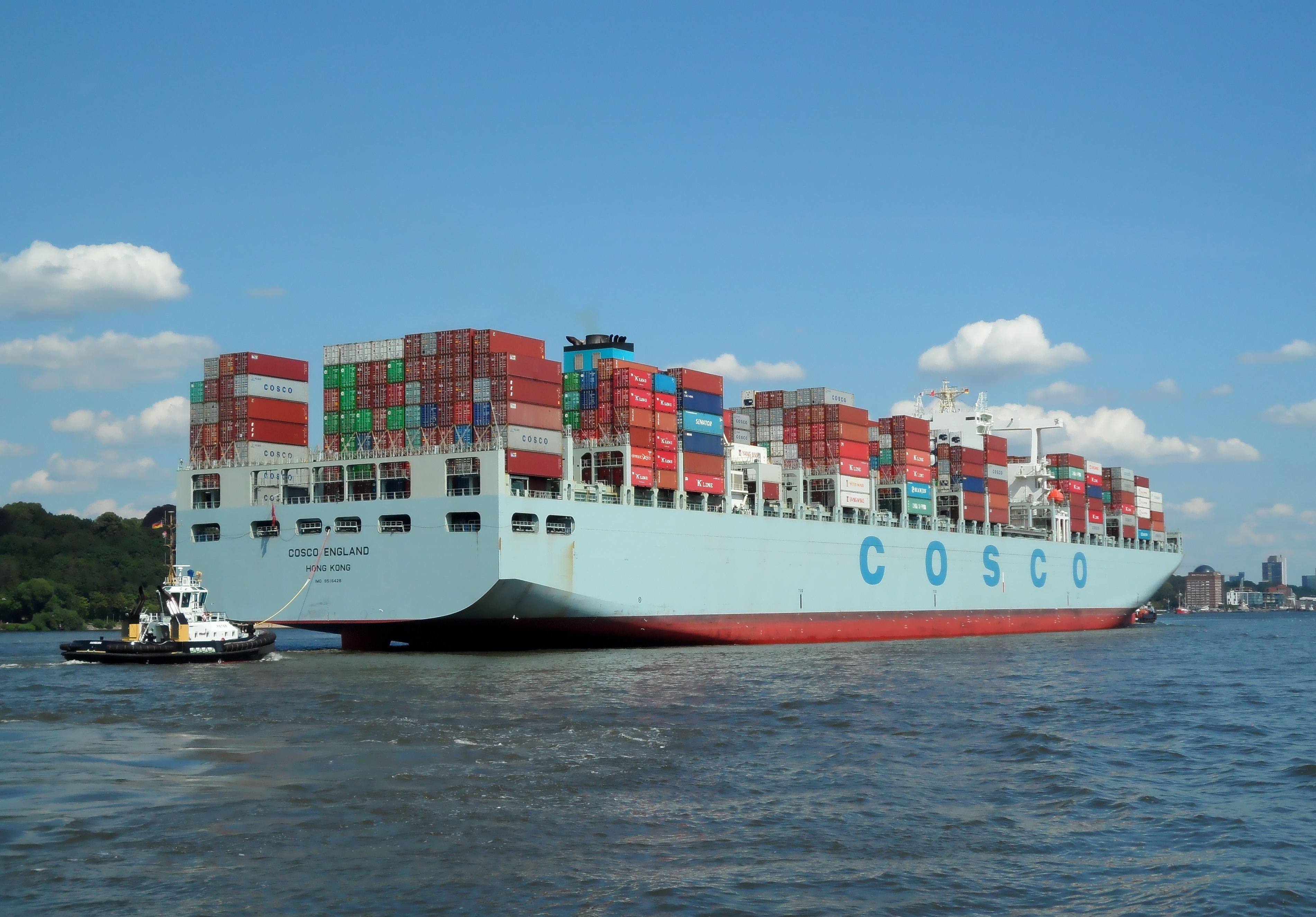 Container ship COSCO England arriving in the port of Hamburg